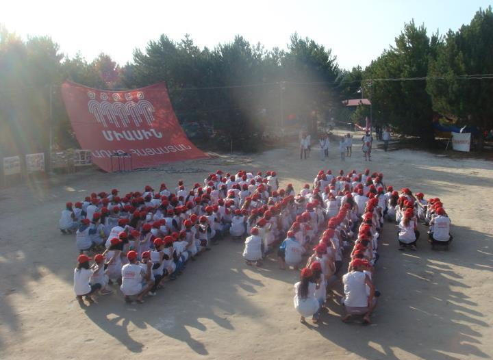 Youth Movement Miasin flashmob 2011